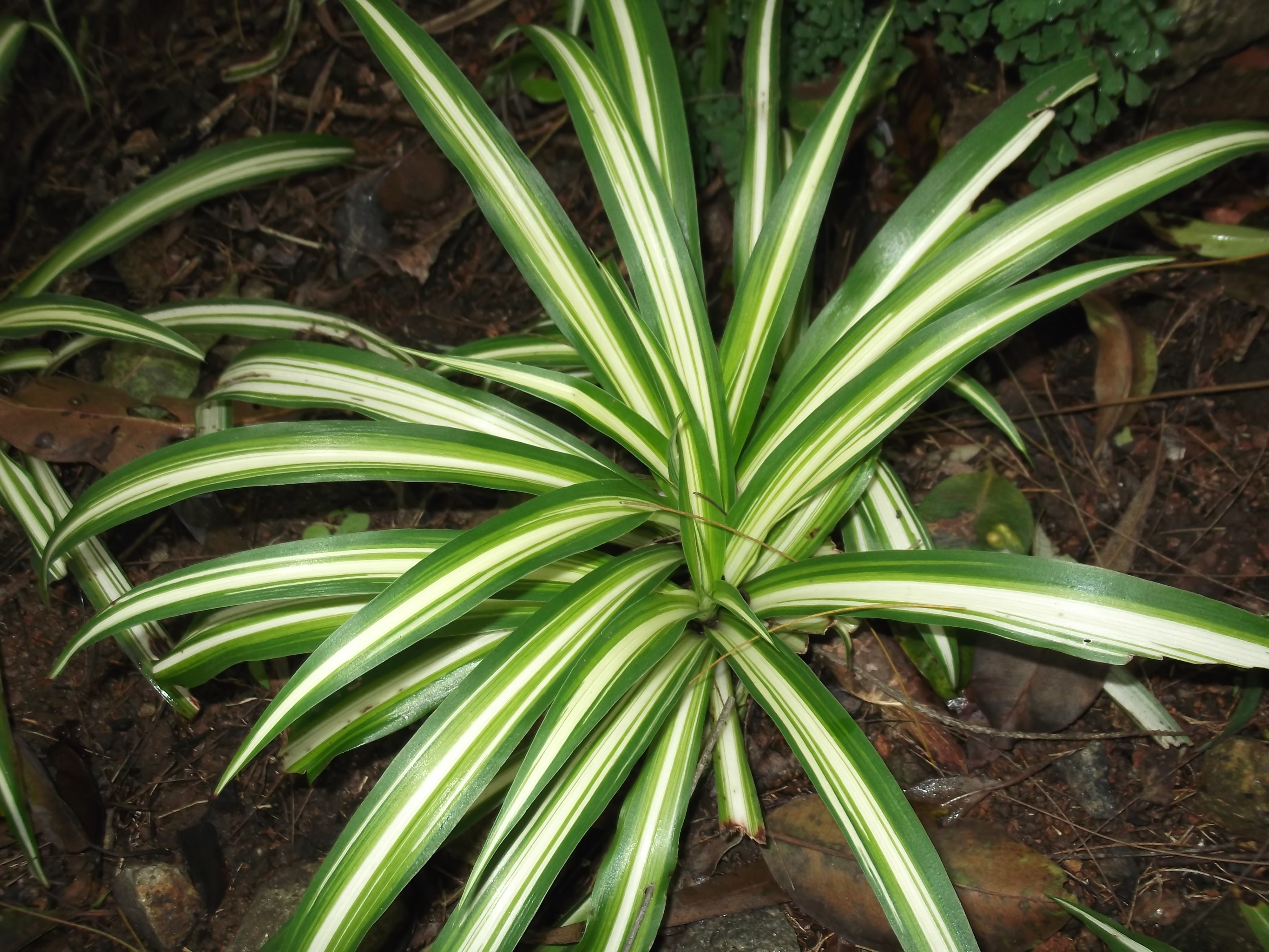 Very attractive,broad linear recurving foliage,cream white and with friendly green edging.